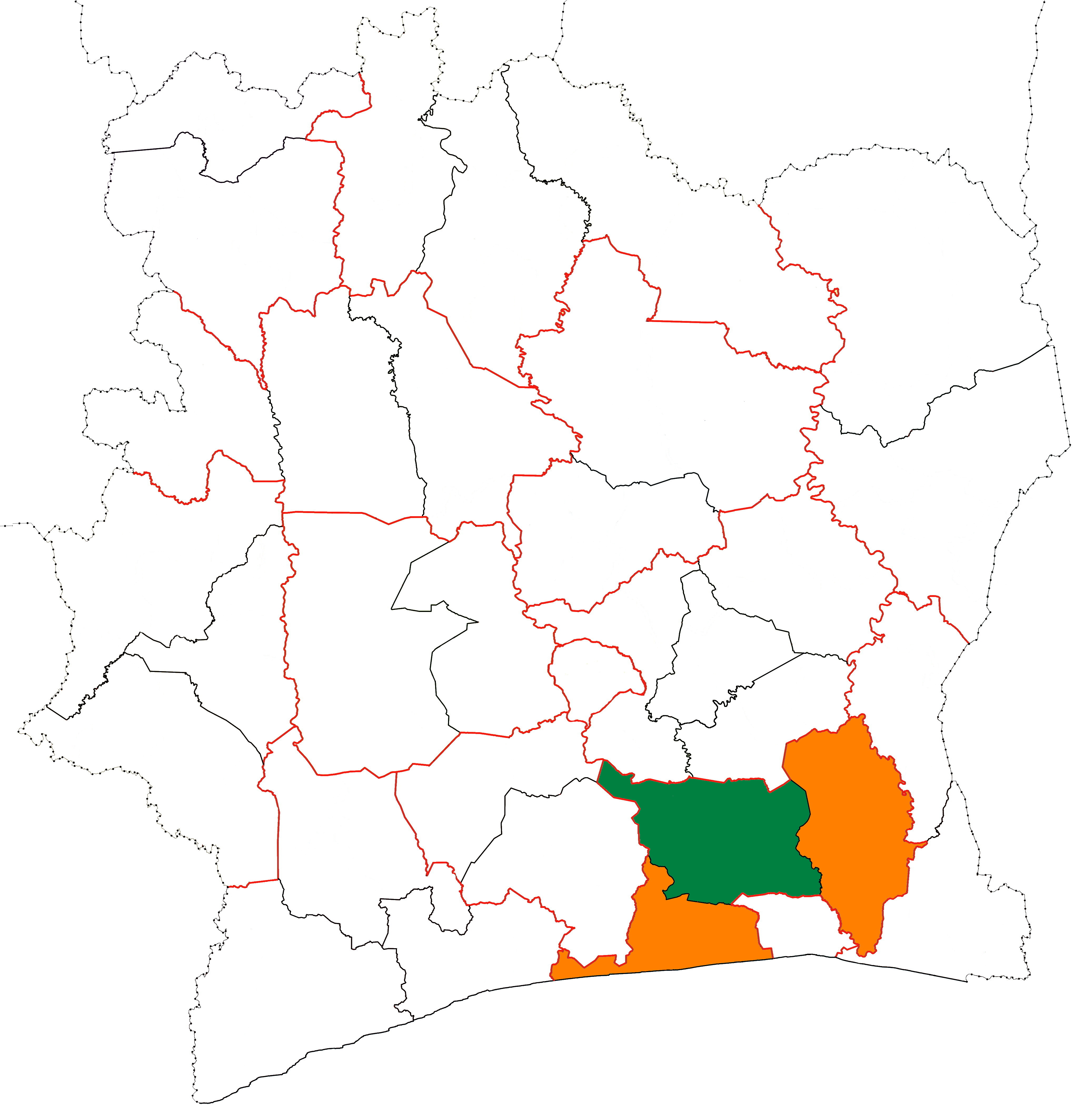 The location of Agnéby-Tiassa region (green) in Côte d'Ivoire. The other shaded areas represent the other parts of Lagunes District.